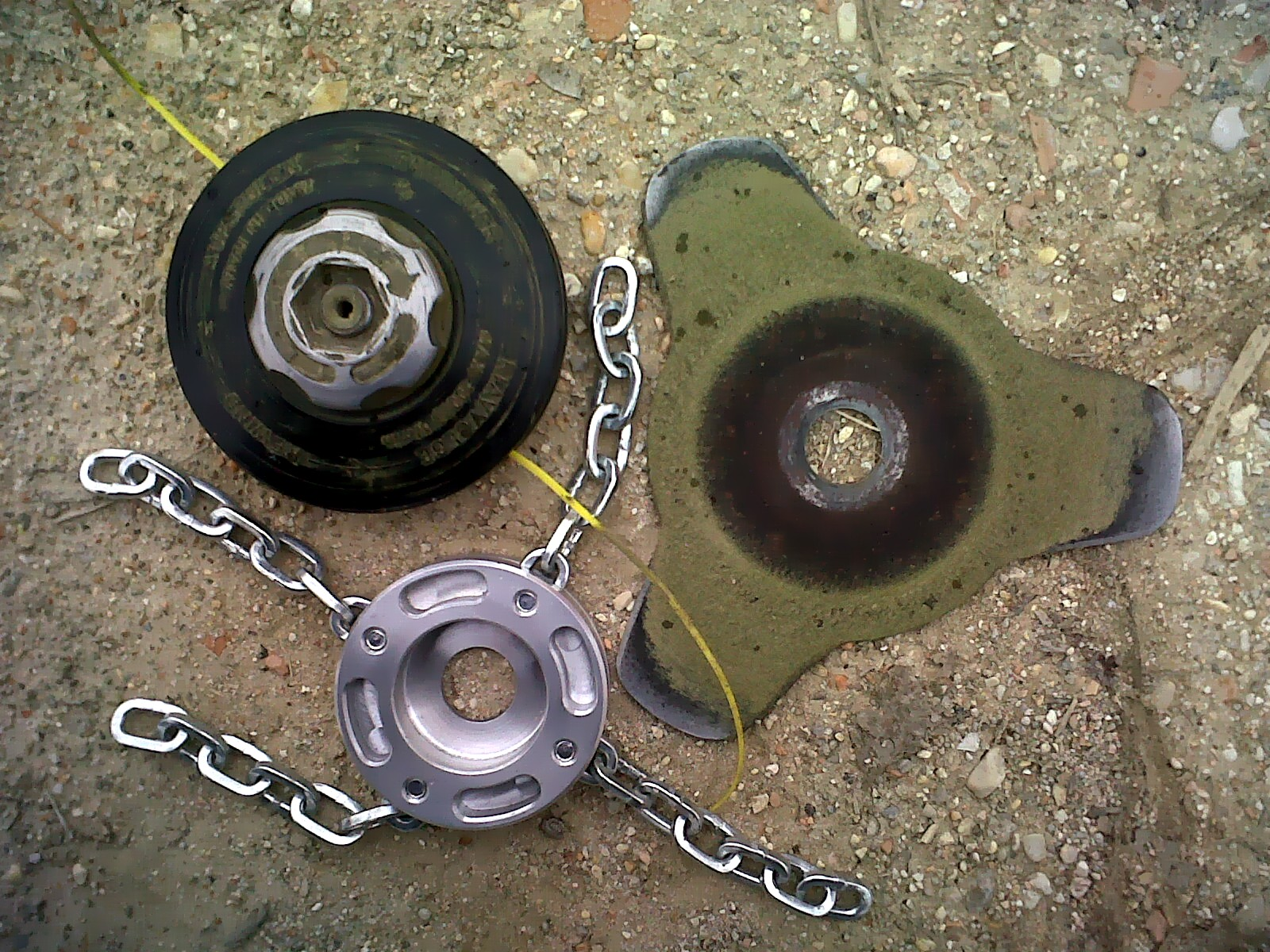 Three different heads for home use: In the top left you have the wire model. In the bottom left you have the model chain. On the right you have version blade.